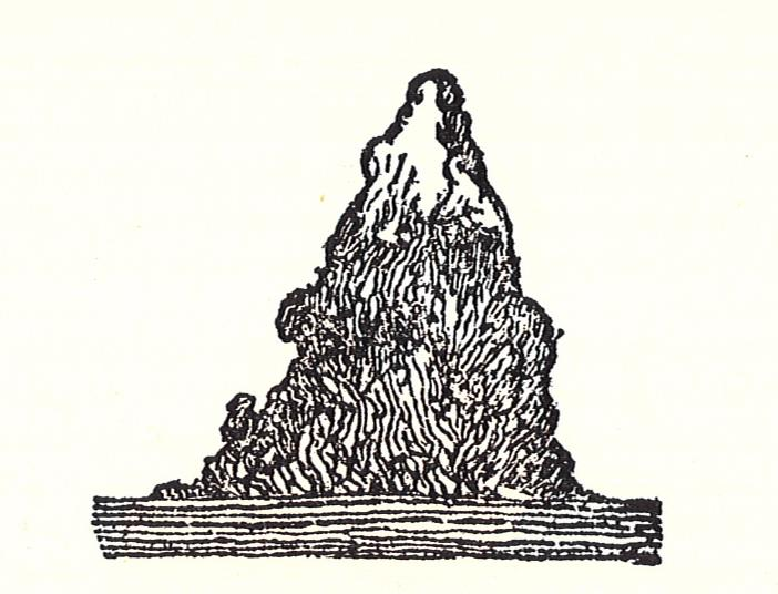 Sketch of Rockall, from HM frigate Endymion